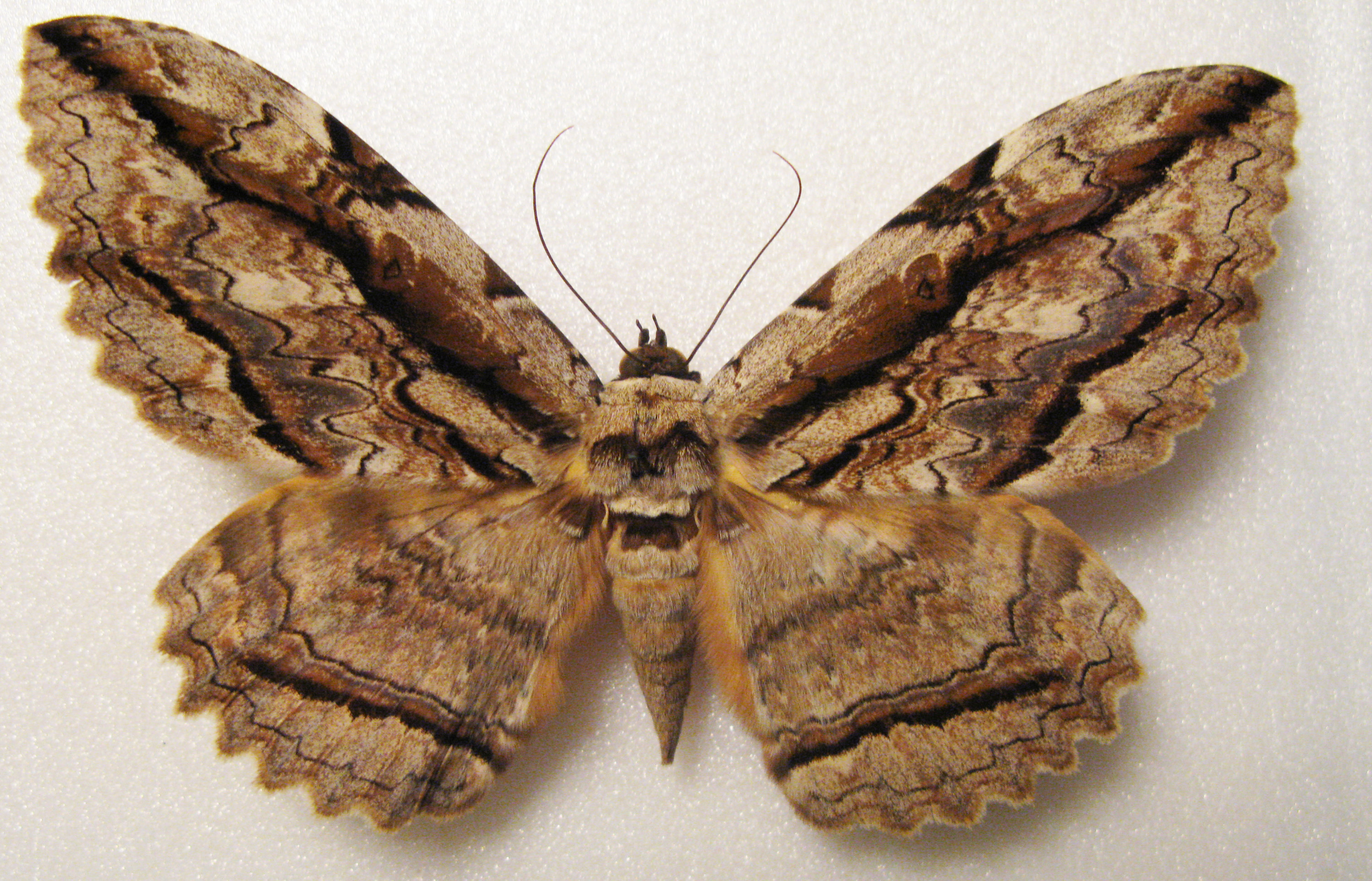 Thysania zenobia